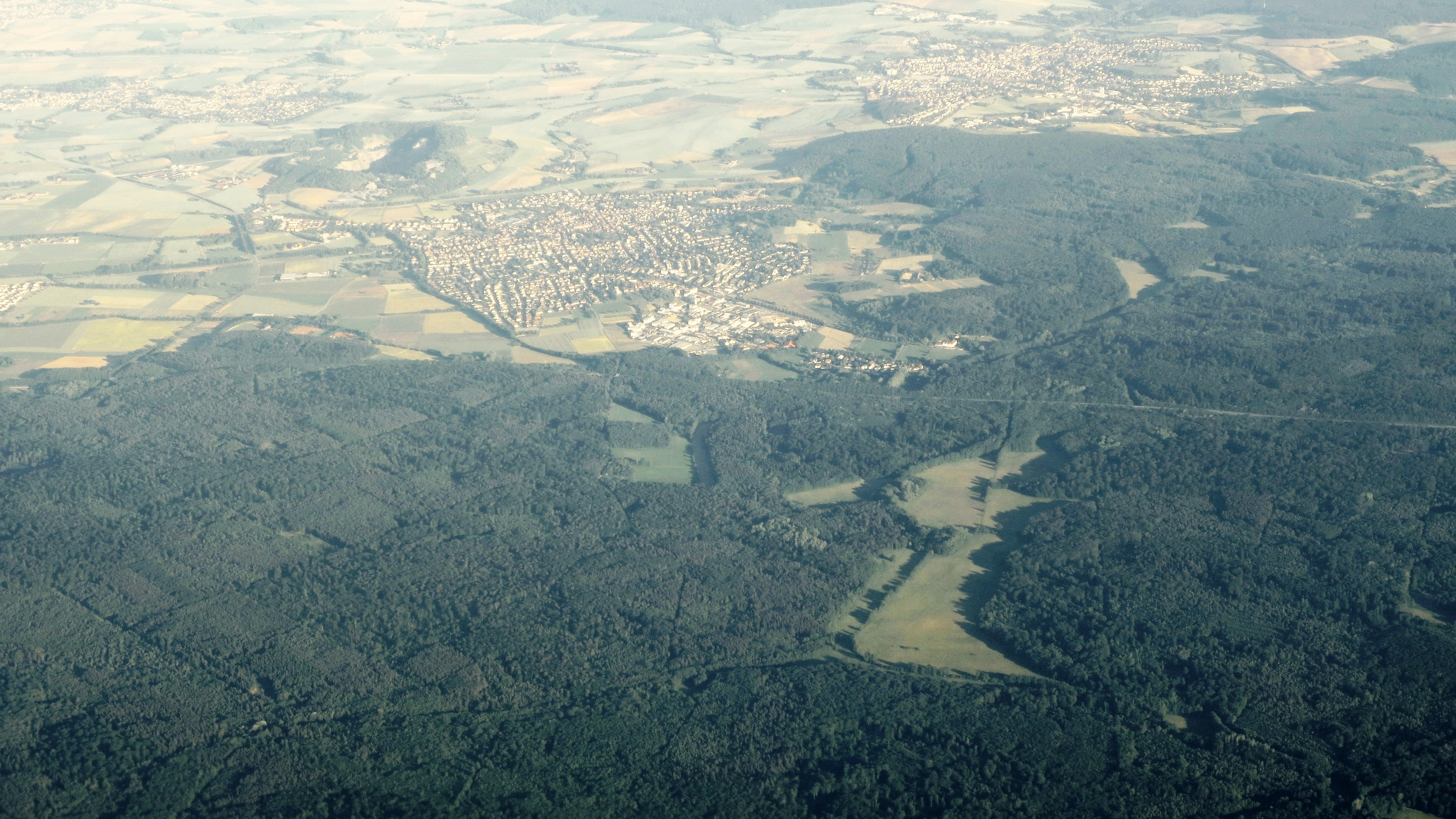 Aeril view from the southern parts of Hessen state, Germany, near the Rhine river.